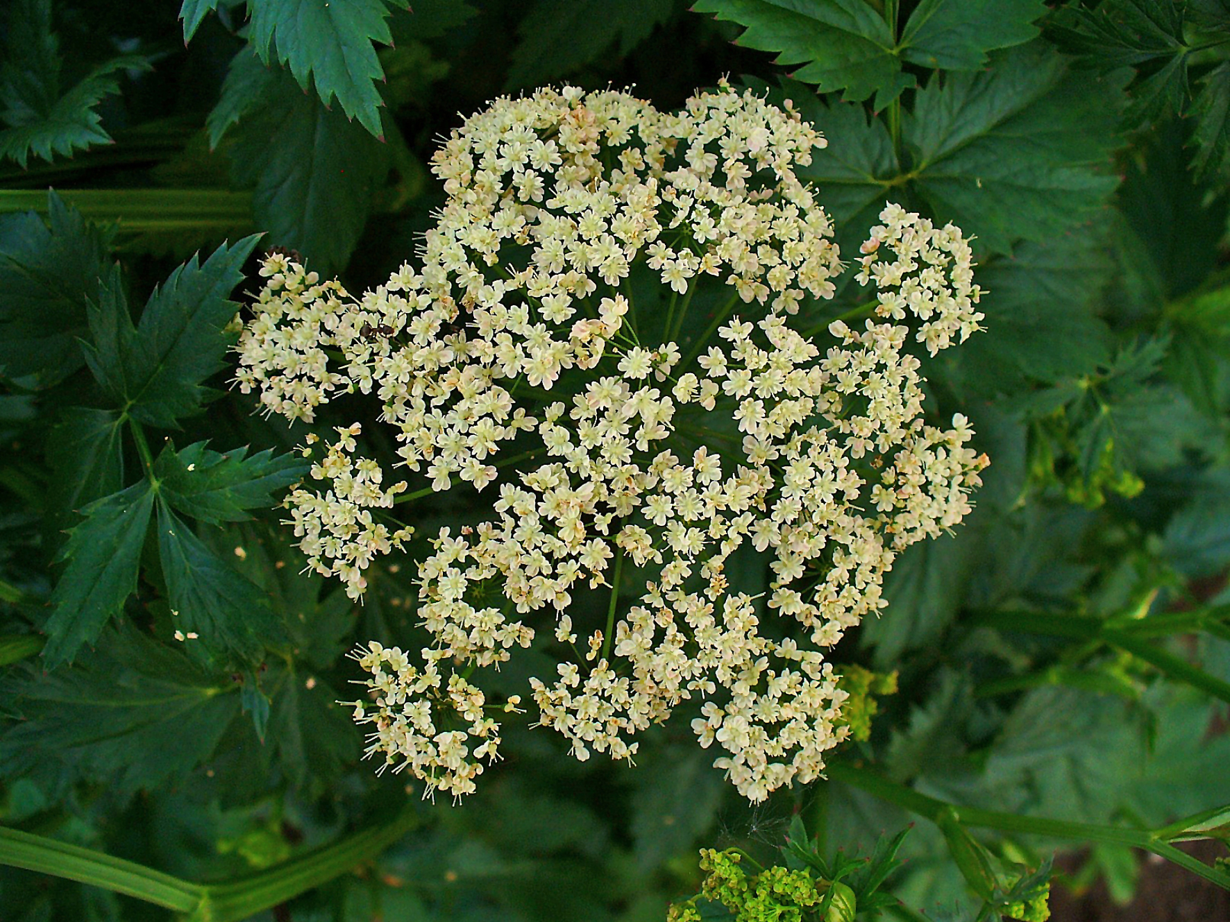 Pimpinella major var. major, Greater Burnet-saxifrage, inflorescence. Stutensee-Staffort, Germany.